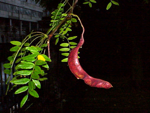 Species: Gleditsia japonica Family: Fabaceae Image No. 2